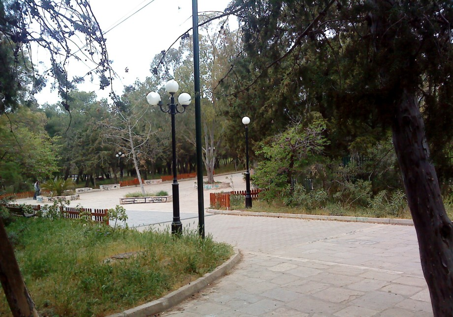 Great Papagou park